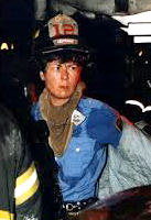 Picture of Berkman after team saved a man's life in a fire.